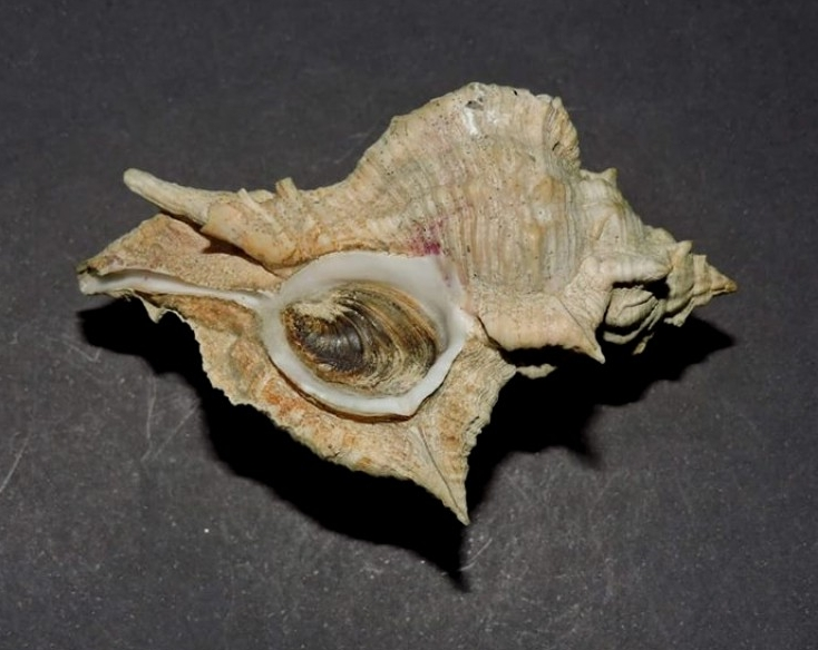 Photograph of gastropod specimen: Siratus senegalensis (Gmelin, 1791); the type species of Siratus genus. Collected in southeastern Brazil; Peres beach, Ubatuba, São Paulo state (22.III.1992).